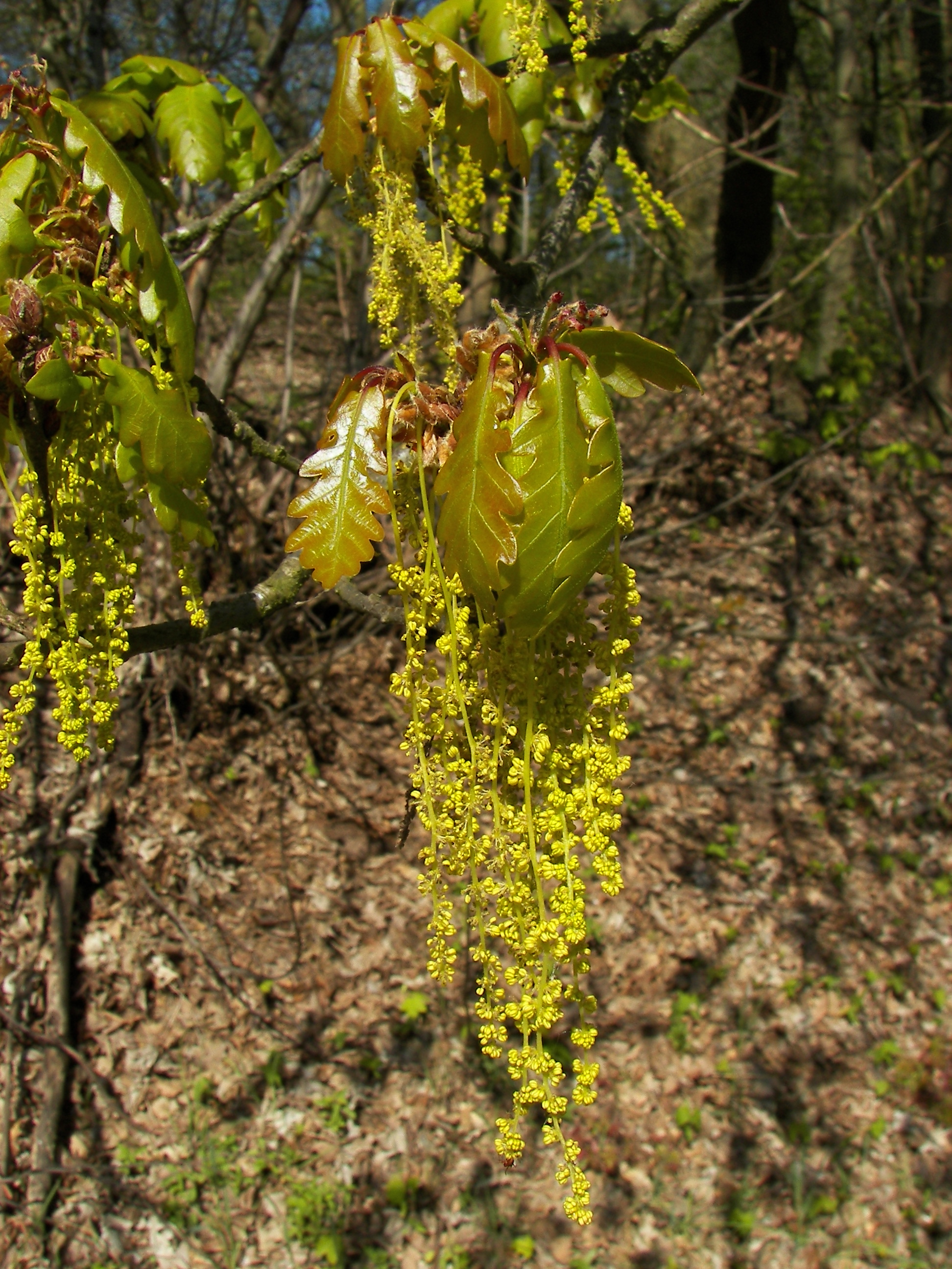 Sessile Oak (Quercus petreae), flowers, Location: Cölbe, Hesse, Germany